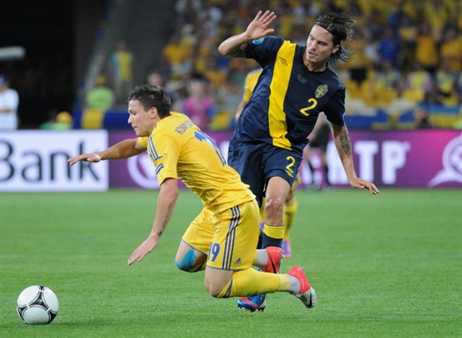 UEFA Euro 2012 match between Ukraine and Sweden that took place in Kiev. Final result was 2:1 (2xShevchenko - Ibrahimović)